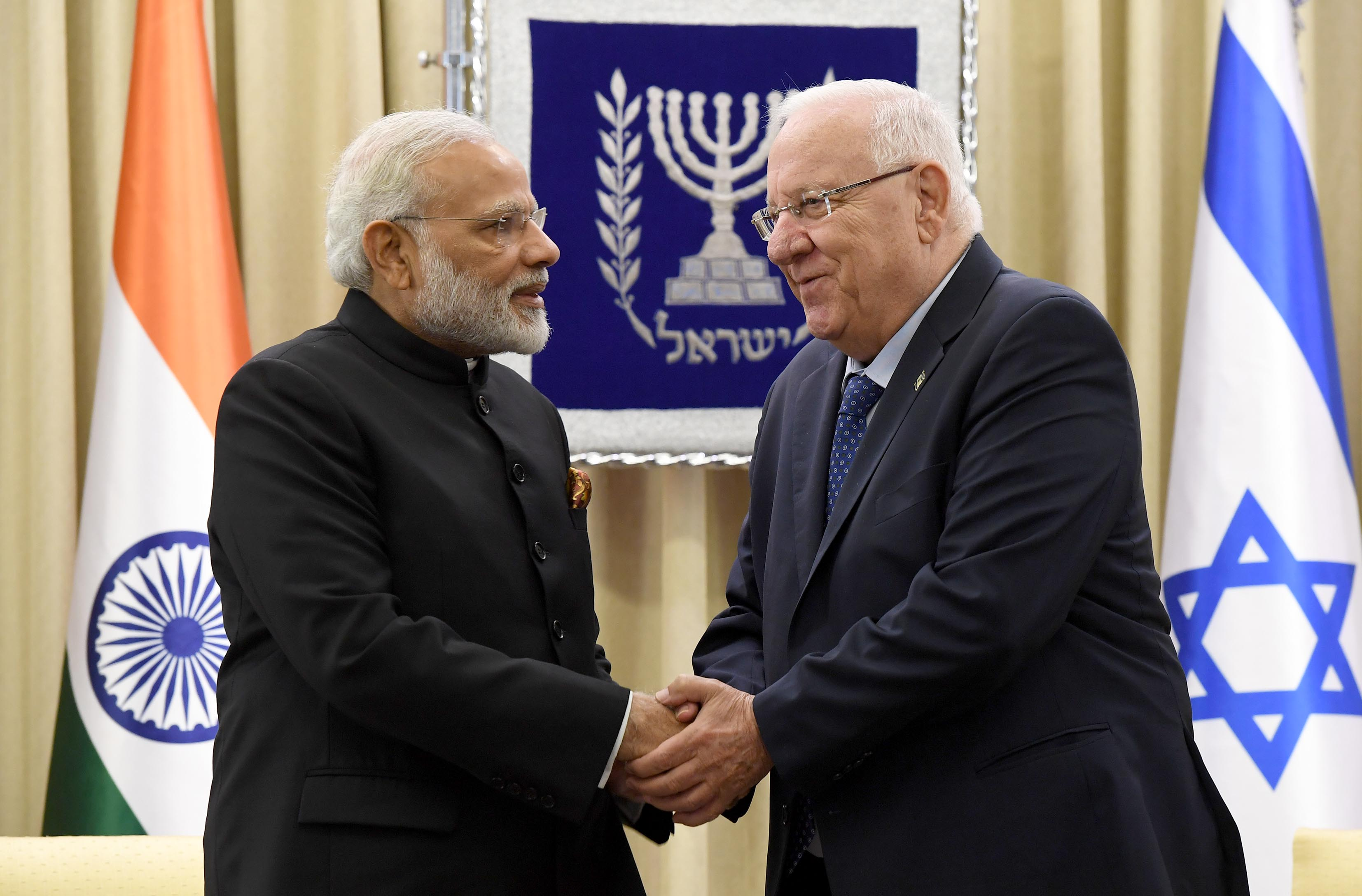 President Reuven Rivlin held a working meeting with Indian Prime Minister Narendra Modi, who is on an official visit to Israel. Wednesday, July 5, 2017. Photo Credit: Mark Neyman / GPO.